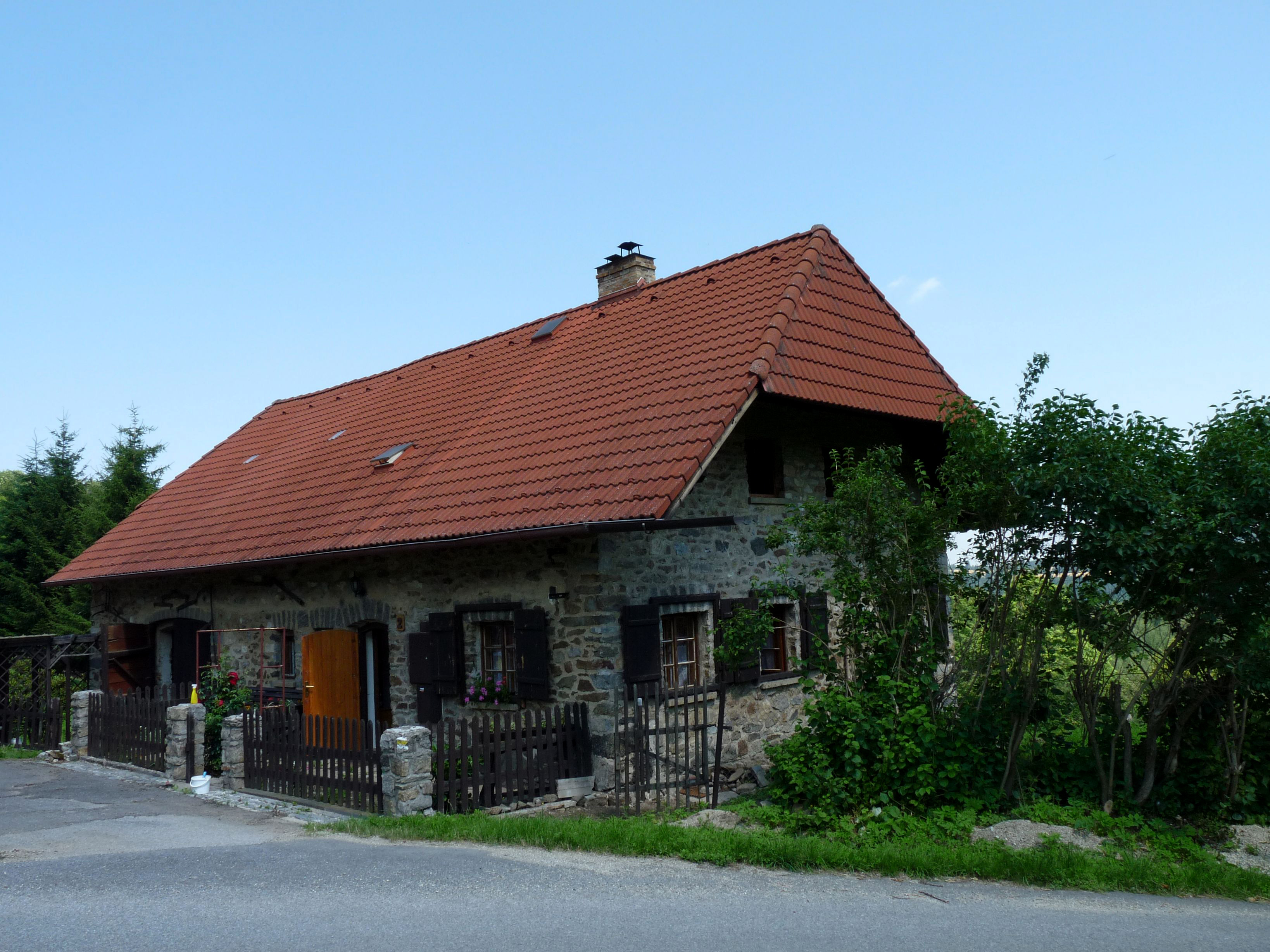 House at No 2 in the village of Rohanov, Prachatice District, South Bohemian Region, Czech Republic.